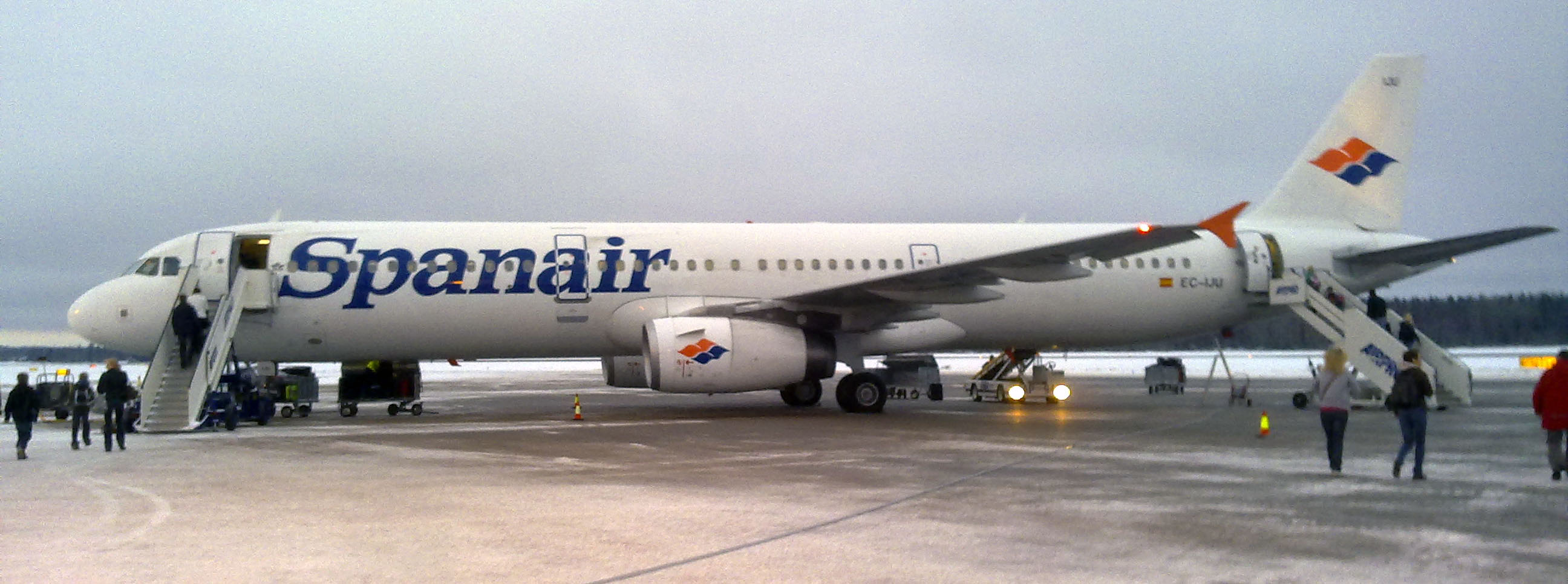 Spanair Airbus A321-231 (EC-IJU) in Vaasa Airport.